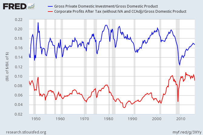 United States post-World War II private investment (blue) and after-tax corporate profits (red) both deflated by gross domestic product.